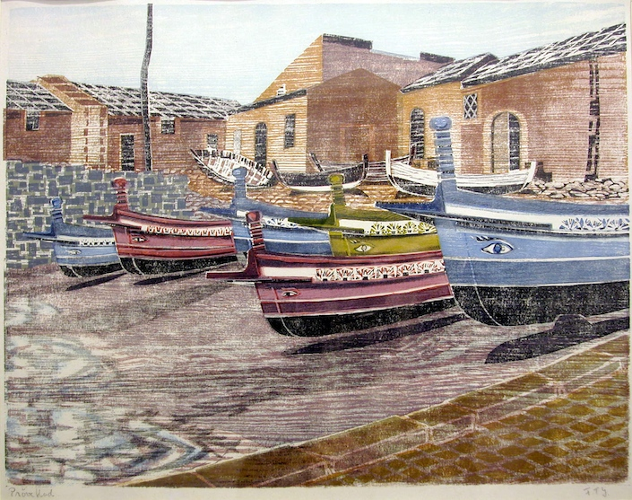 Photo of the woodprint "Båter på Sicilia" made by the Norwegian artist Carl Frithjof Tidemand-Johannessen in the 1950's. Carl Frithjof Tidemand-Johannessen died in 1958, and according to Norwegian law (Åndsverksloven) this artwork will usually be protected until 70 years after the death year of the creator.